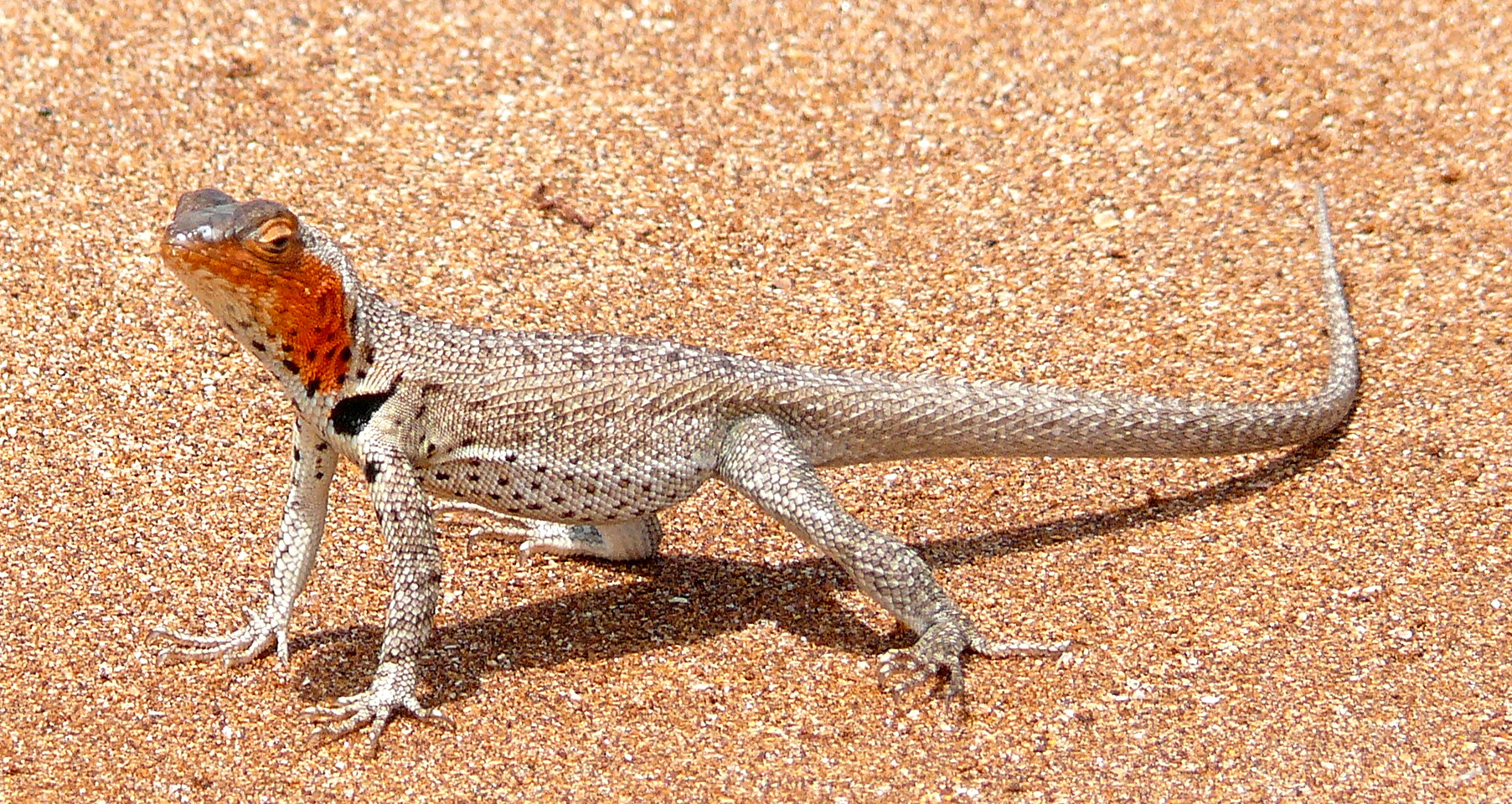 Lavalizard (Microlophus jacobi) female